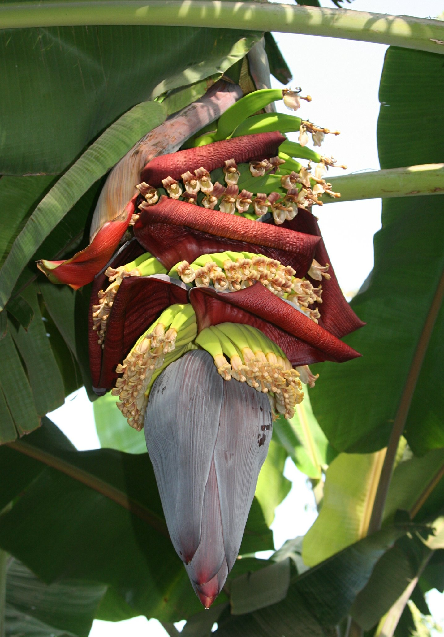 Banana plant showing flower and continuous production of bananas, taken on Banana Island, Luxor, Egypt